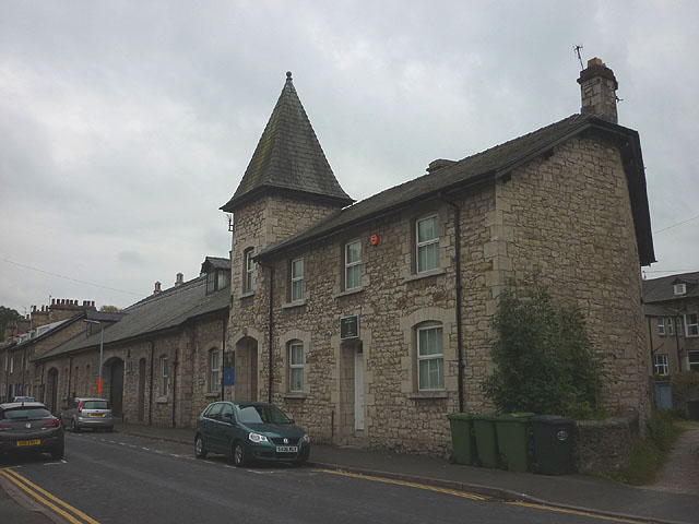 Former World War One Drill Hall, Kendal